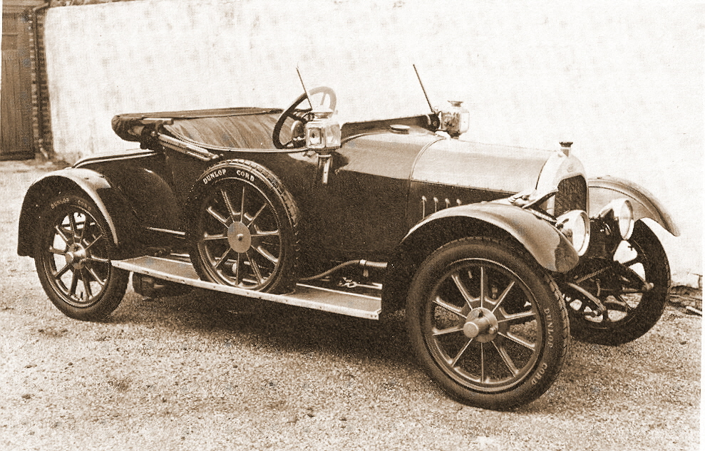 1914 Perry 8 hp